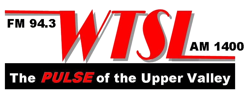 Former logo of the radio stations WTSL and WTSV.